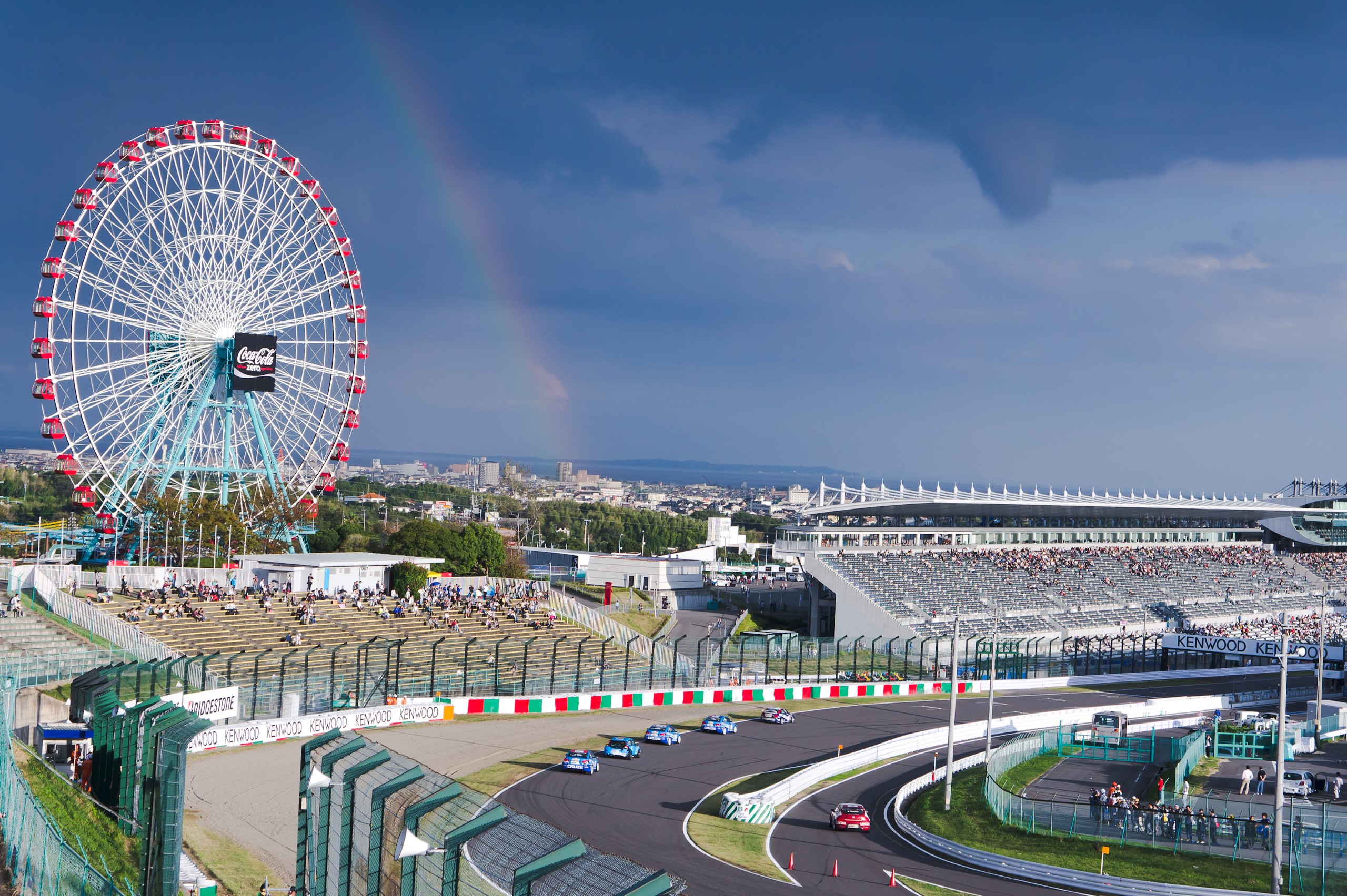 World Touring Car Championship 2011 Race of Japan - Race 2: Both races were held under dry condition for the first time in the history of the FIA WTCC Race of Japan.